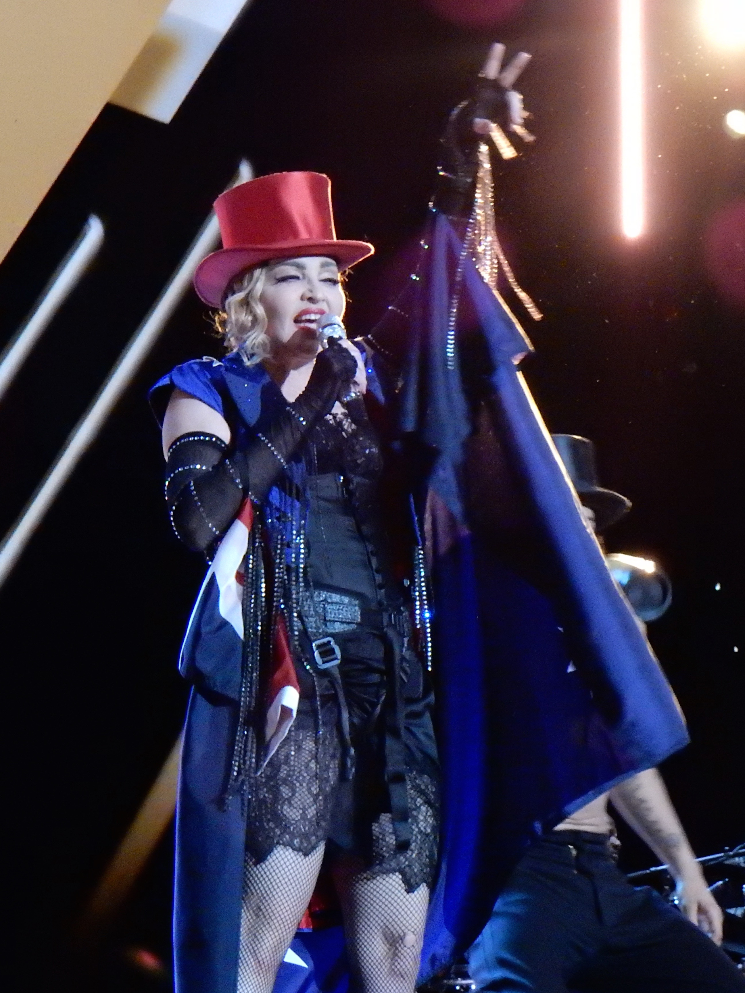 Rebel Heart tour 2016 - Melbourne 1